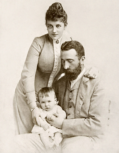 Portrait of Alexander Battenberg von Hartenau and his family.